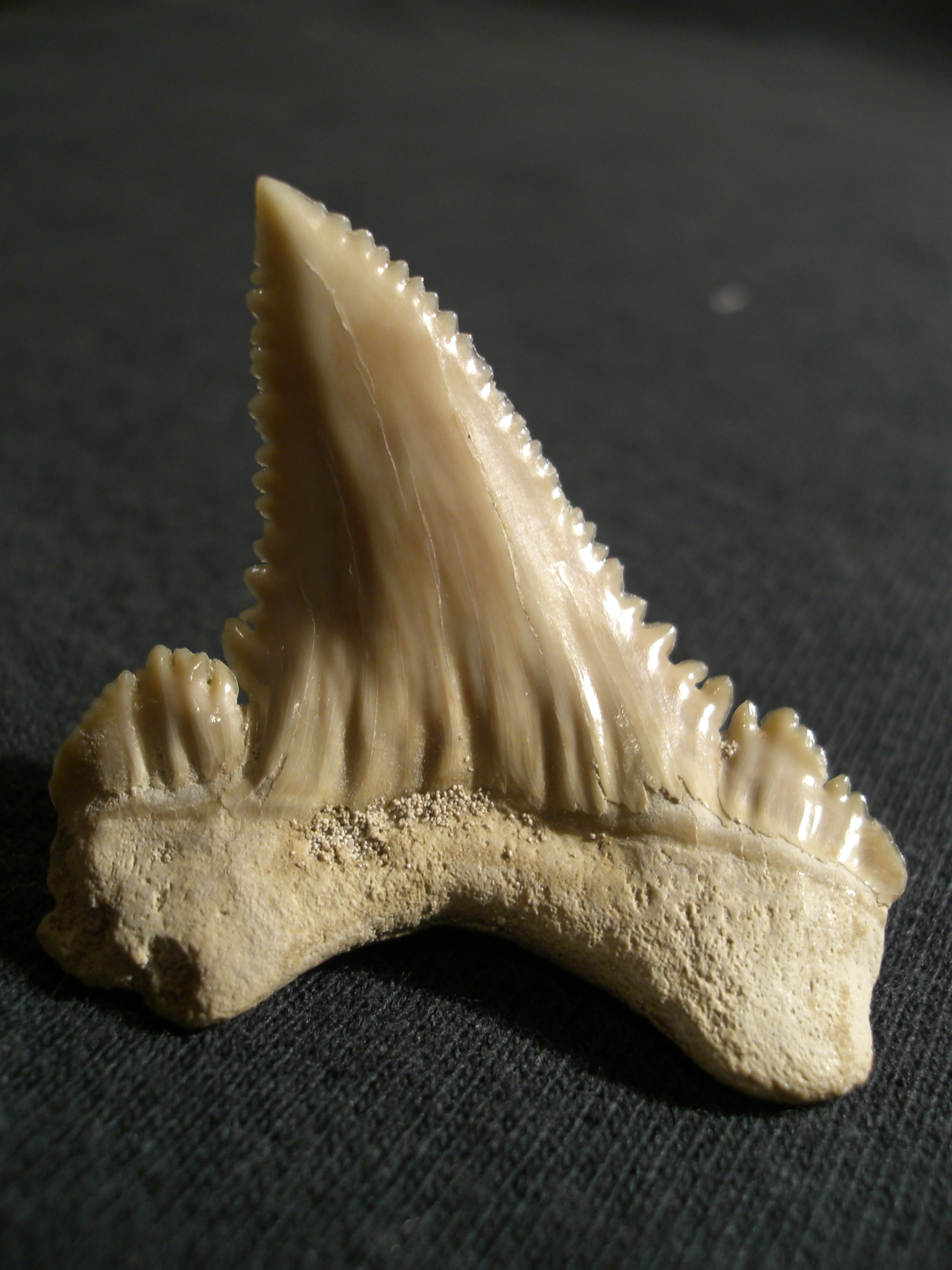 Tooth of Palaeocarcharodon which was found in Atlas mountain in Morocco. 60 million years old, long ~3 cm.